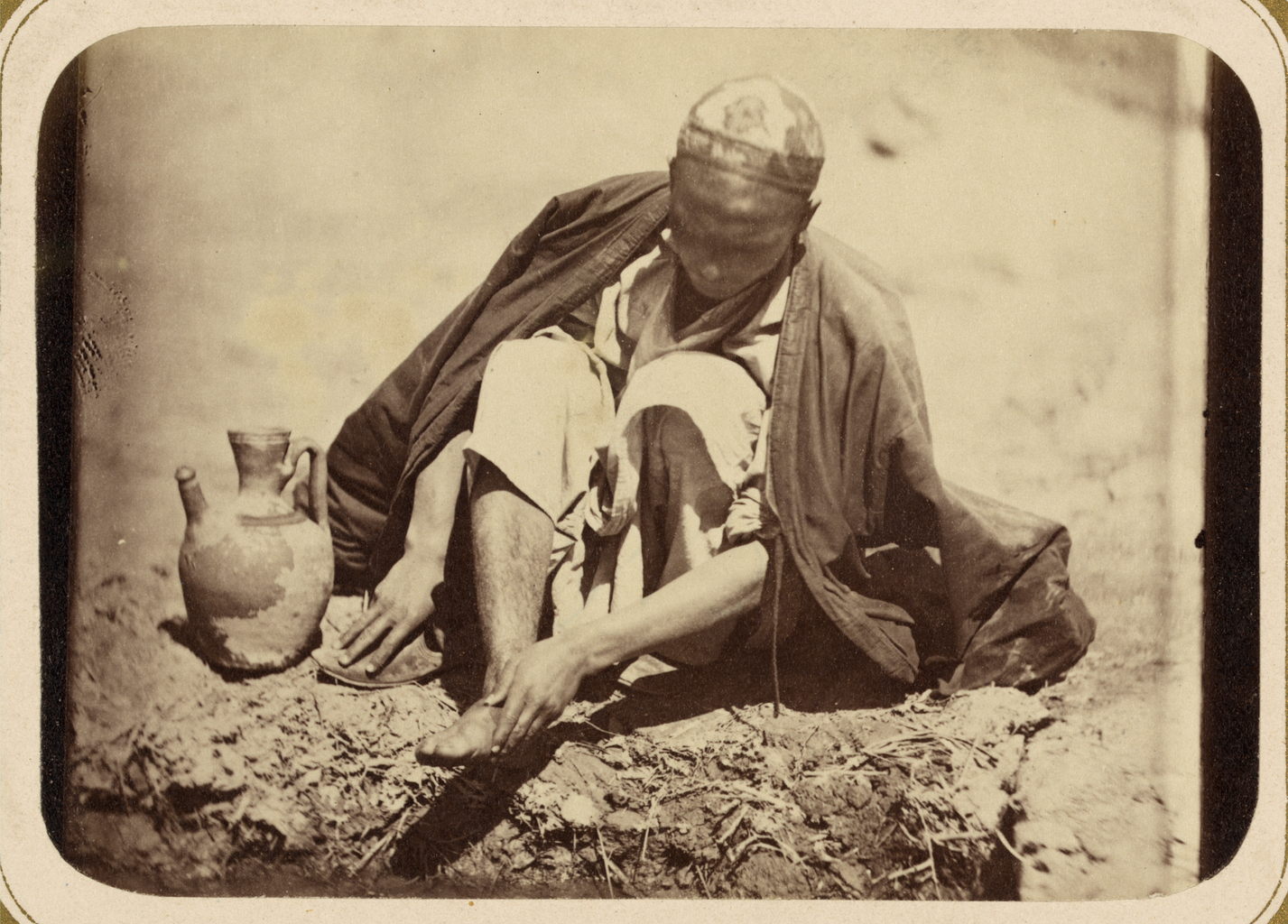 This photograph is from the ethnographical part of Turkestan Album, a comprehensive visual survey of Central Asia undertaken after imperial Russia assumed control of the region in the 1860s. Commissioned by General Konstantin Petrovich von Kaufman (1818–82), the first governor-general of Russian Turkestan, the album is in four parts spanning six volumes: “Archaeological Part” (two volumes); “Ethnographic Part” (two volumes); “Trades Part” (one volume); and “Historical Part” (one volume). The principal compiler was Russian Orientalist Aleksandr L. Kun, who was assisted by Nikolai V. Bogaevskii. The album contains some 1,200 photographs, along with architectural plans, watercolor drawings, and maps. The “Ethnographic Part” includes 491 individual photographs on 163 plates. The photographs show individuals representing the different peoples of the region (Plates 1–33); daily life and rituals (Plates 34–91); and views of villages and cities, street vendors, and commercial activities (Plates 92–163). Ethnographic photographs; Muslims; Photographic surveys; Prayer; Rites and ceremonies; Spiritual life; Turkic peoples